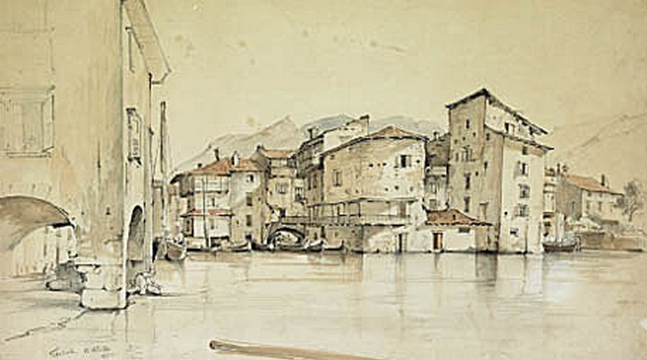 The lot comprised one more watercolour, showing a church door.